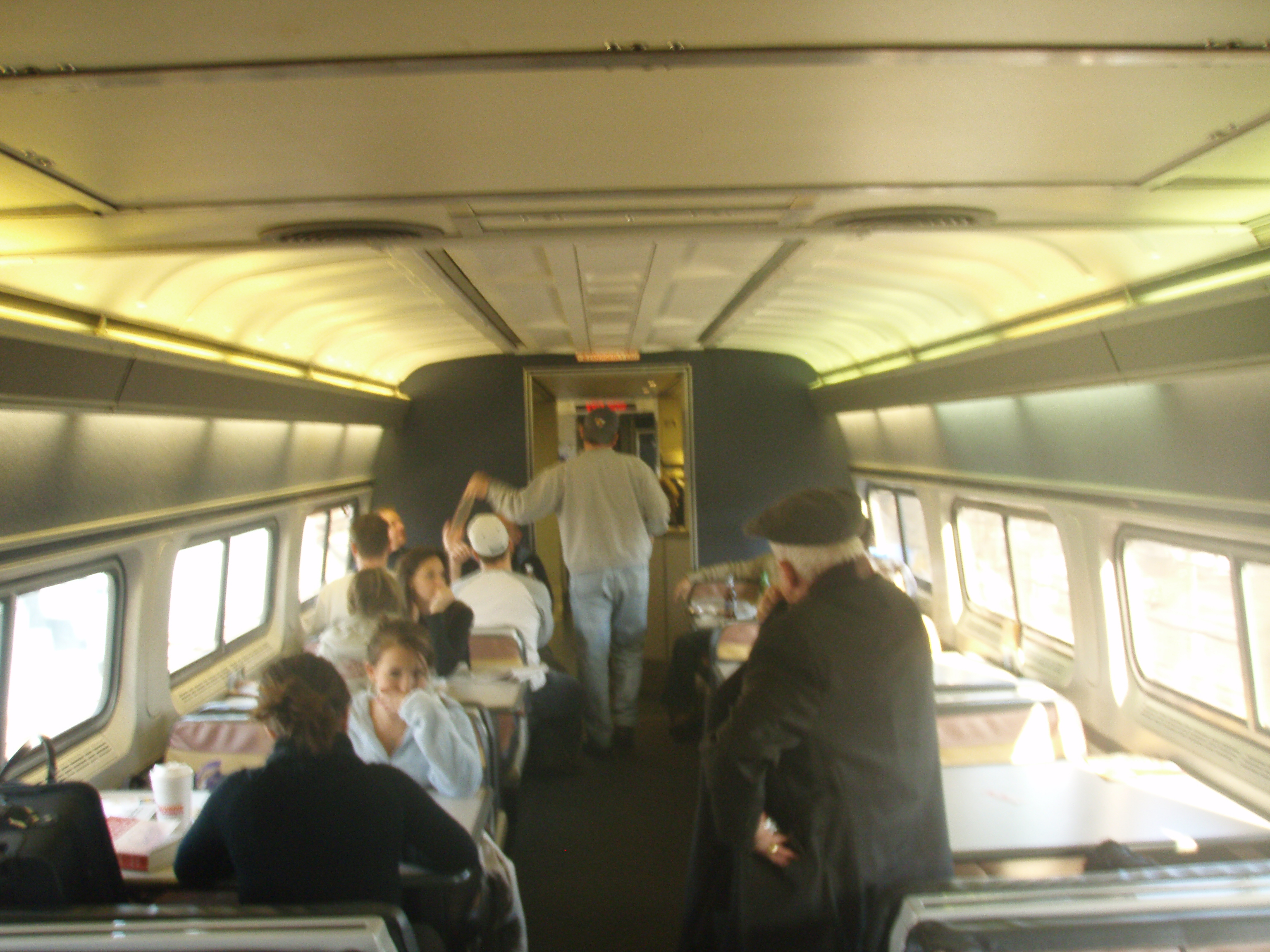 Snack car on an Amtrak train. Picture taken by User:NHRHS2010.